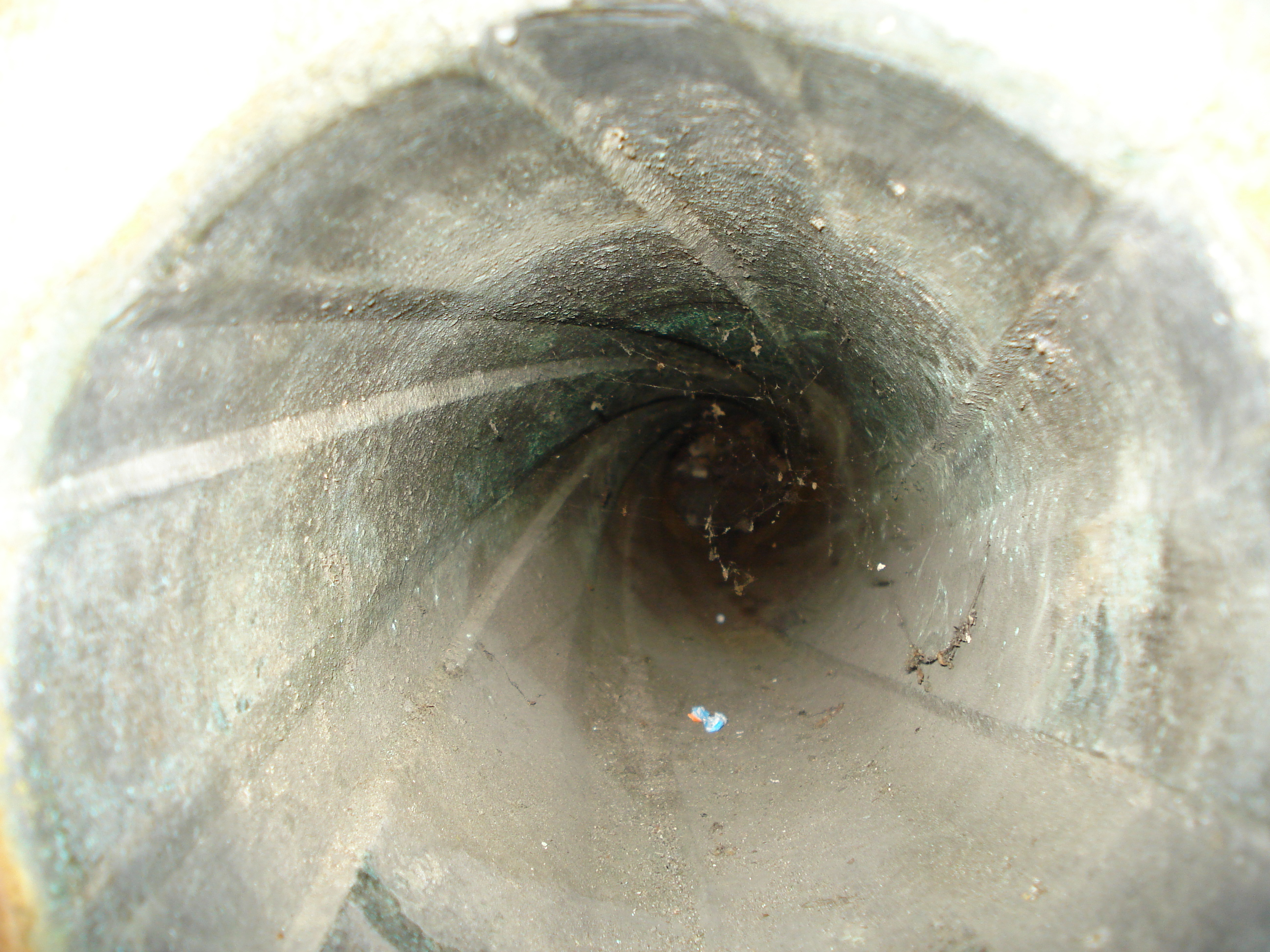 Barrel of a XIX century canon used by the french. Rifling is visible. Location:Army Museum, Paris, France